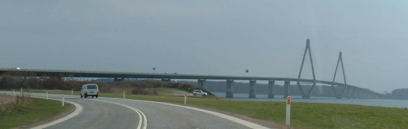 Farø south bridge between Farø and Falster in Denmark, constructed 1980-84. Cable stayed main span of 290m with side spans. Pylon height 95m. Architect E. Villefrance. Taken by contributor spring 2006.